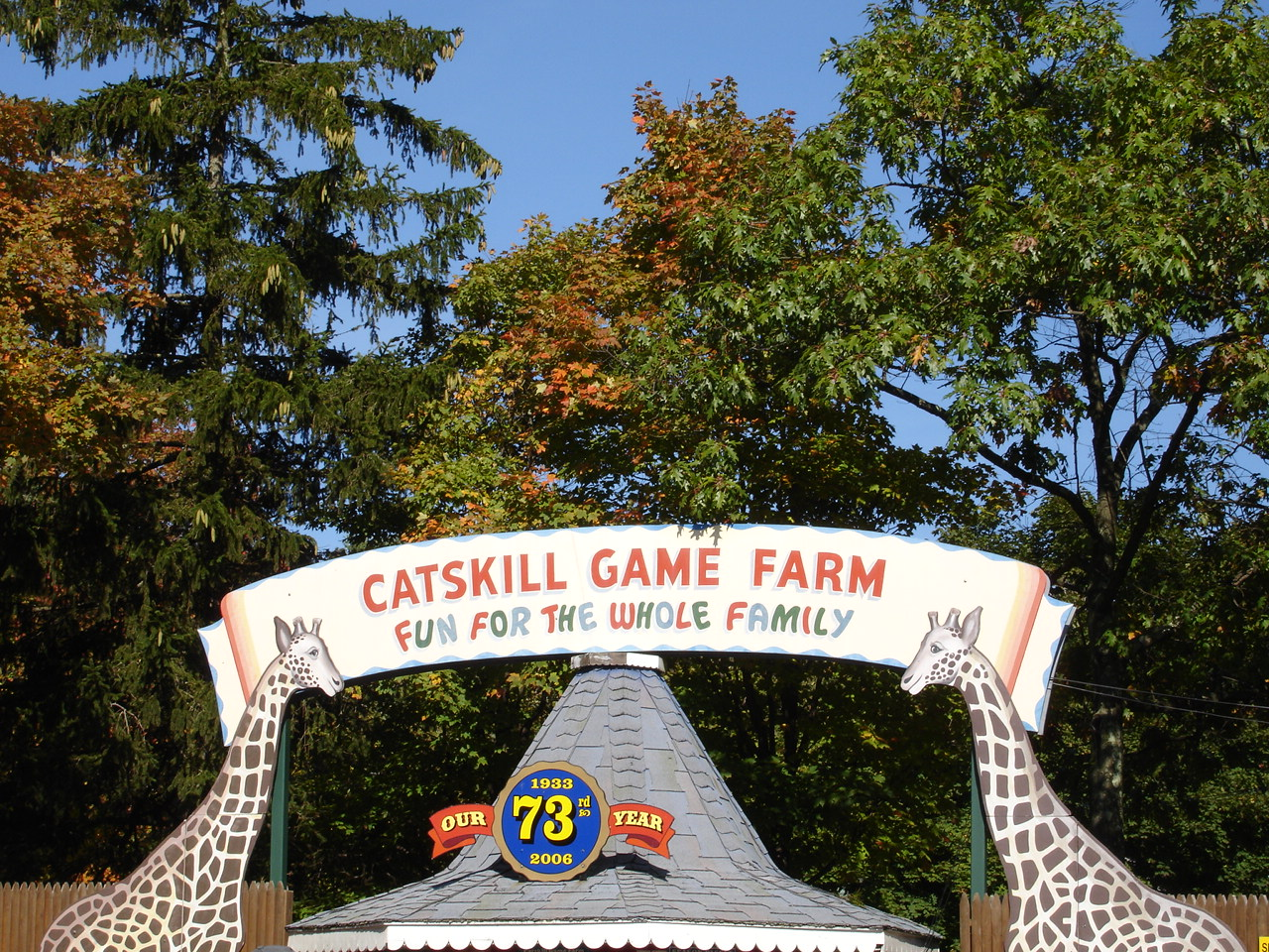 I took this photo in October 2006